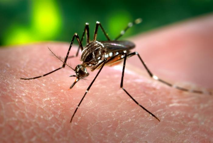 The yellowfever mosquito Aedes aegypti. Note the marking on the thorax in the form of a lyre.